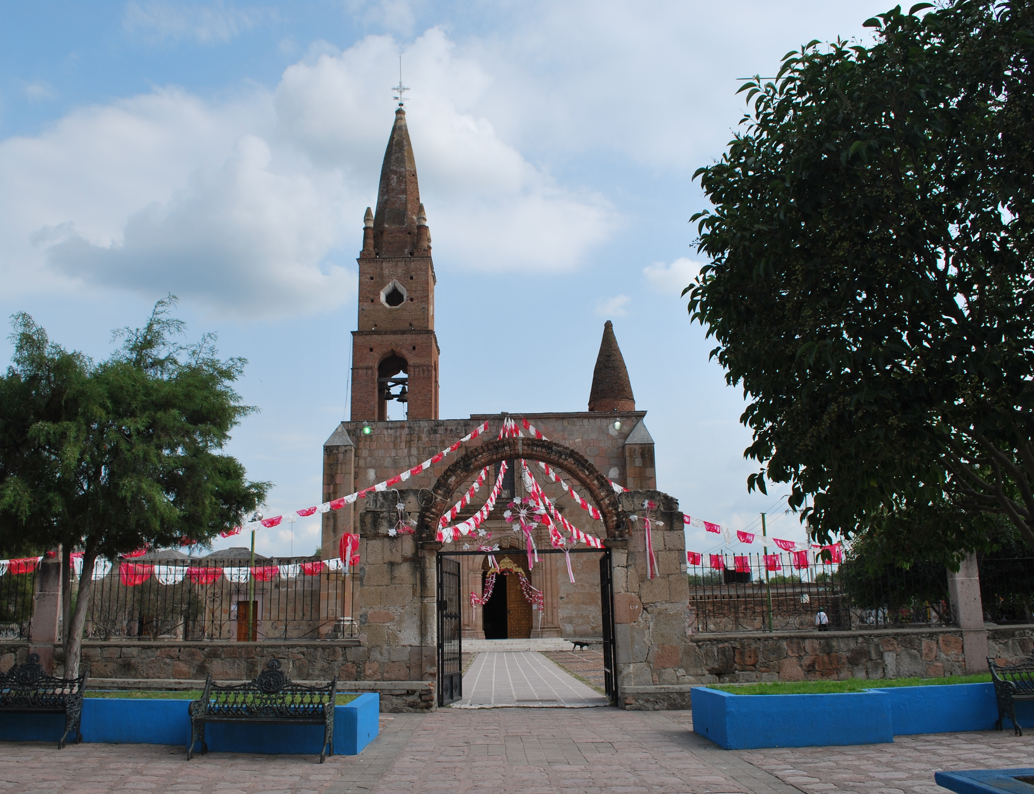 Parish of Sangre de Cristo in the community of Mezquitic de Magdalena, San Juan de los Lagos, Jalisco